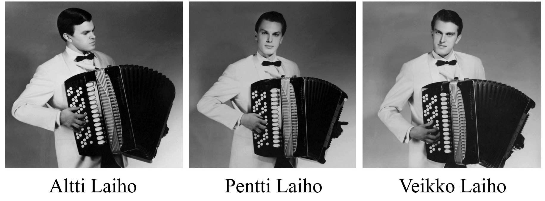 Trio Laiho, Finnish accordionists Altti Laiho, Pentti Laiho, Veikko Laiho, from Finland, May 1967.jpg